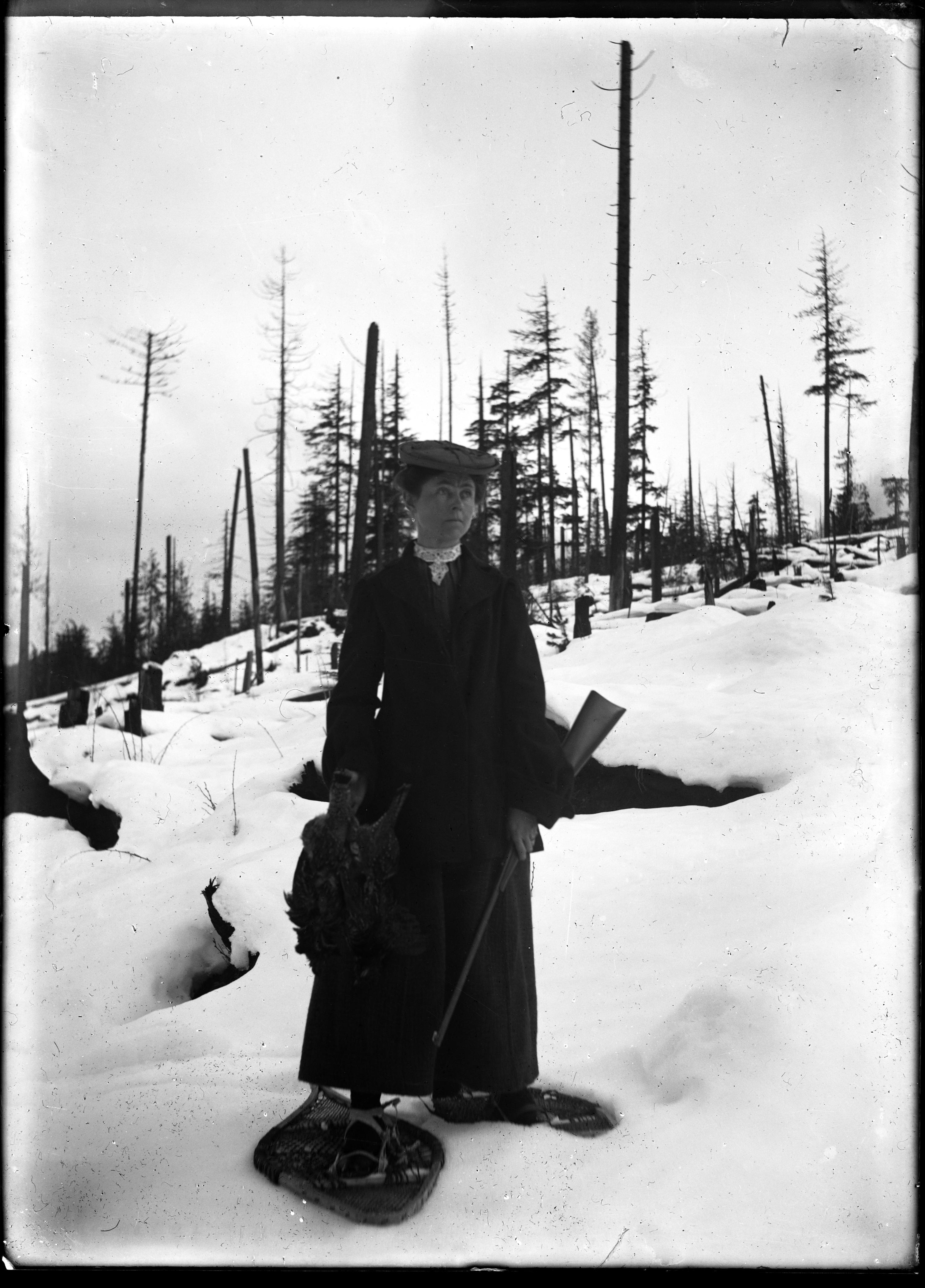 PHOTO NUMBER: 2215 DESCRIPTION: Mattie Gunterman with grouse she has shot PHOTOGRAPHER: Ida Madeline Gunterman DATE: 190- SUBJECTS: Lardeau River Valley, Beaton More information on our historical photograph collection